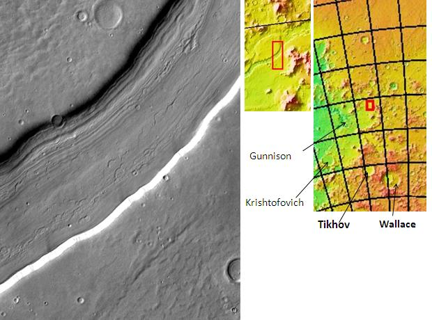 Reull Vallis lineated deposits, as seen by themis. Picture is located 41.1 degrees south latitude and 107.6 degrees east longitude. Picture is about 17 km wide.